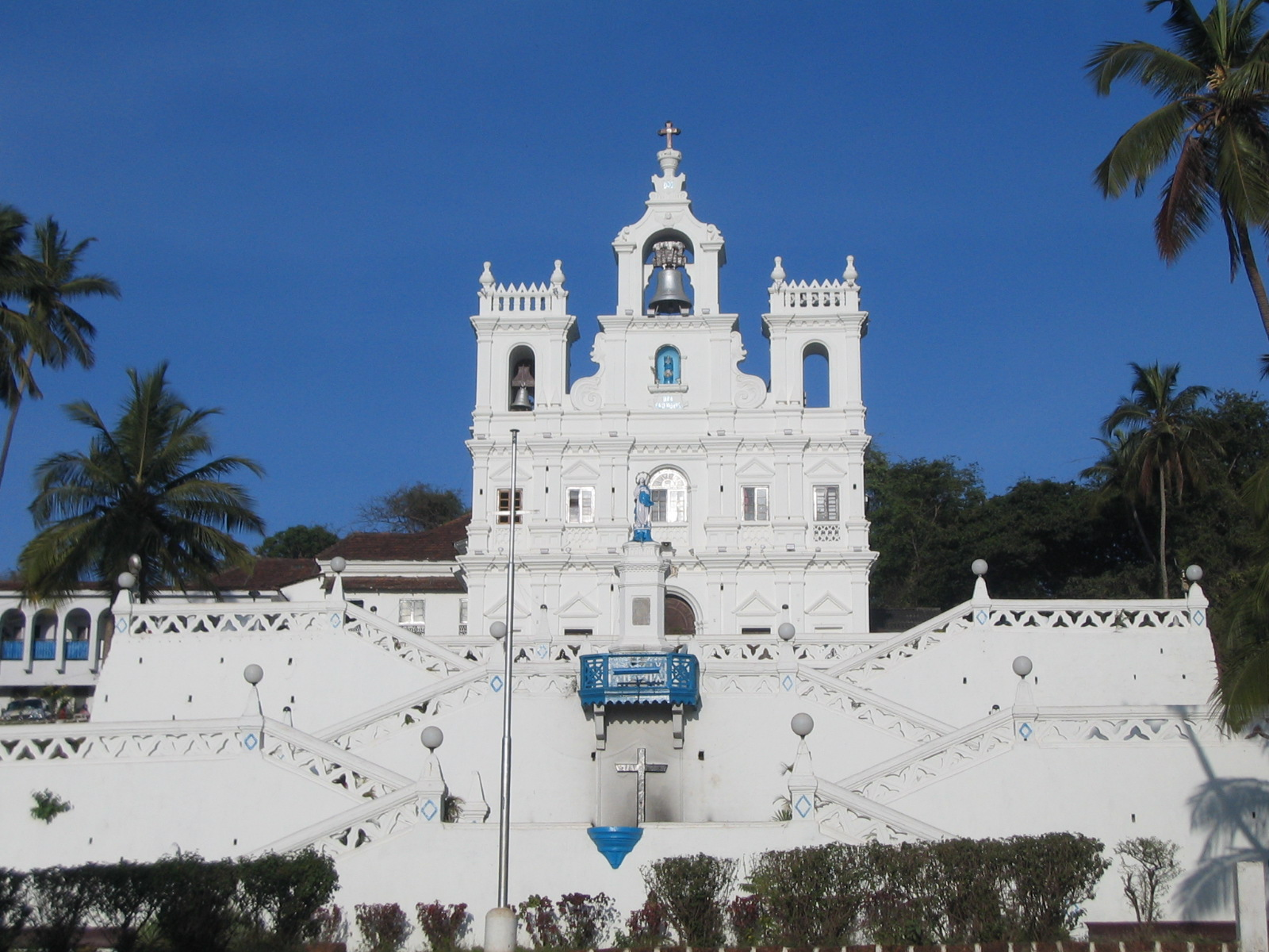 Our Lady of the Immaculate Conception Church, Panjim, Goa.